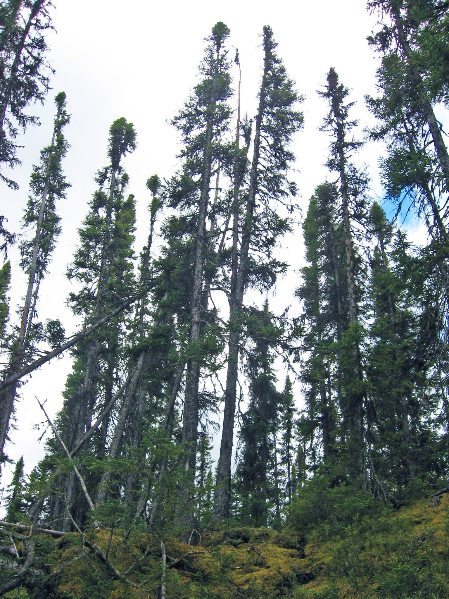 Old boreal forest of Black Spruce Picea mariana on the René-Levasseur island, Manicouagan, Québec.